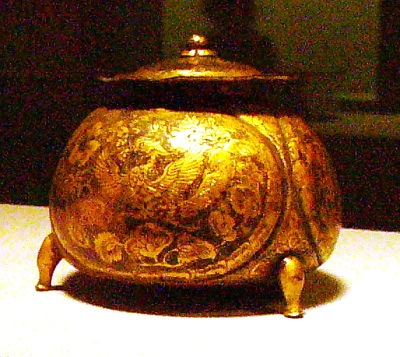 Water container, gilt bronze, 7.2cm in height, Nara period, 8th century, former Horyu-ji Temple treasures, now at theTokyo National Museum, Tokyo, Japan